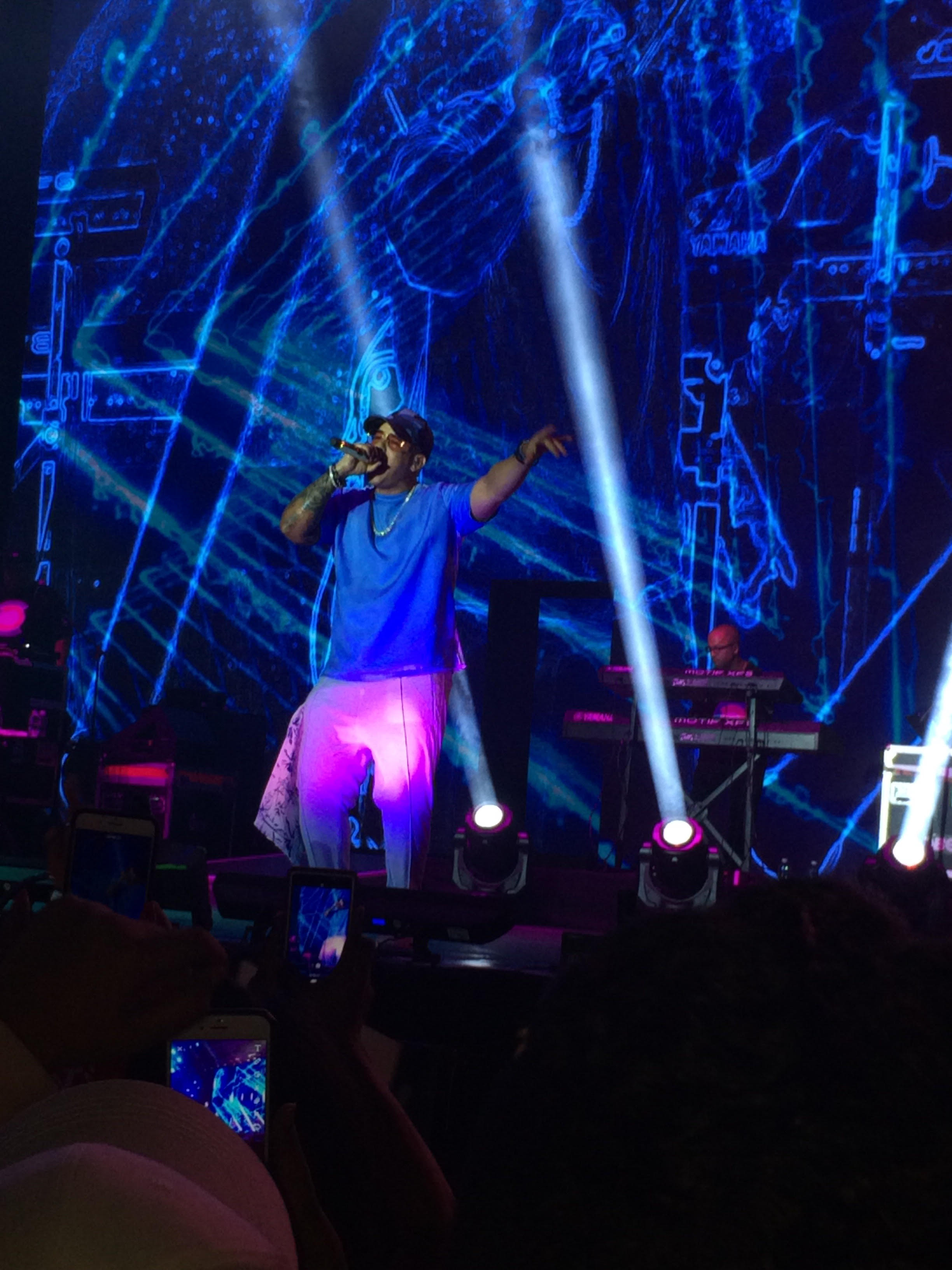 Daddy Yankee's Con Calma Tour 2019